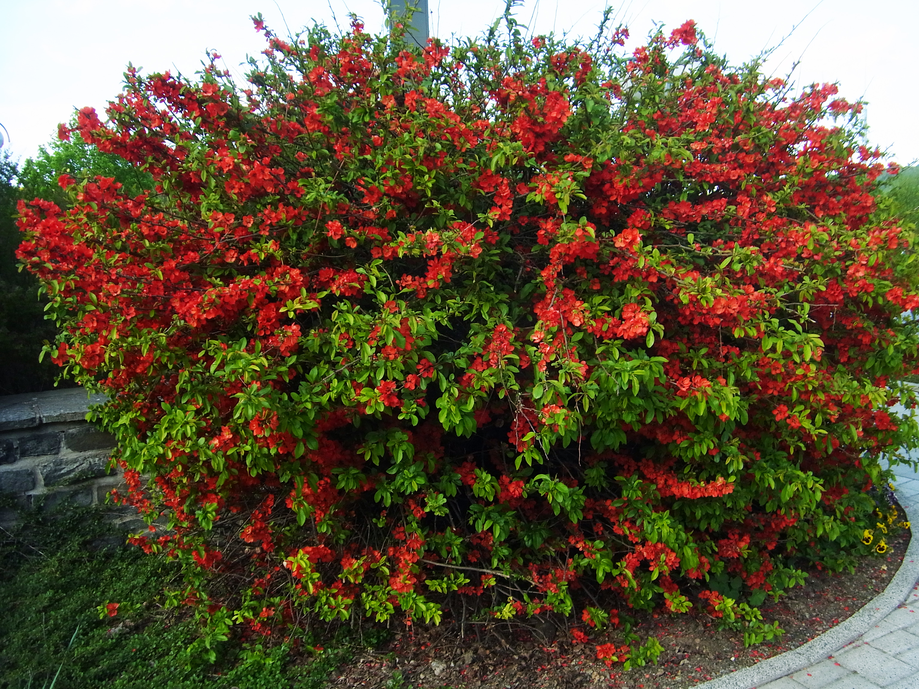 Japanese Quince (Chaenomeles japonica), culitvated bush in full bloom.